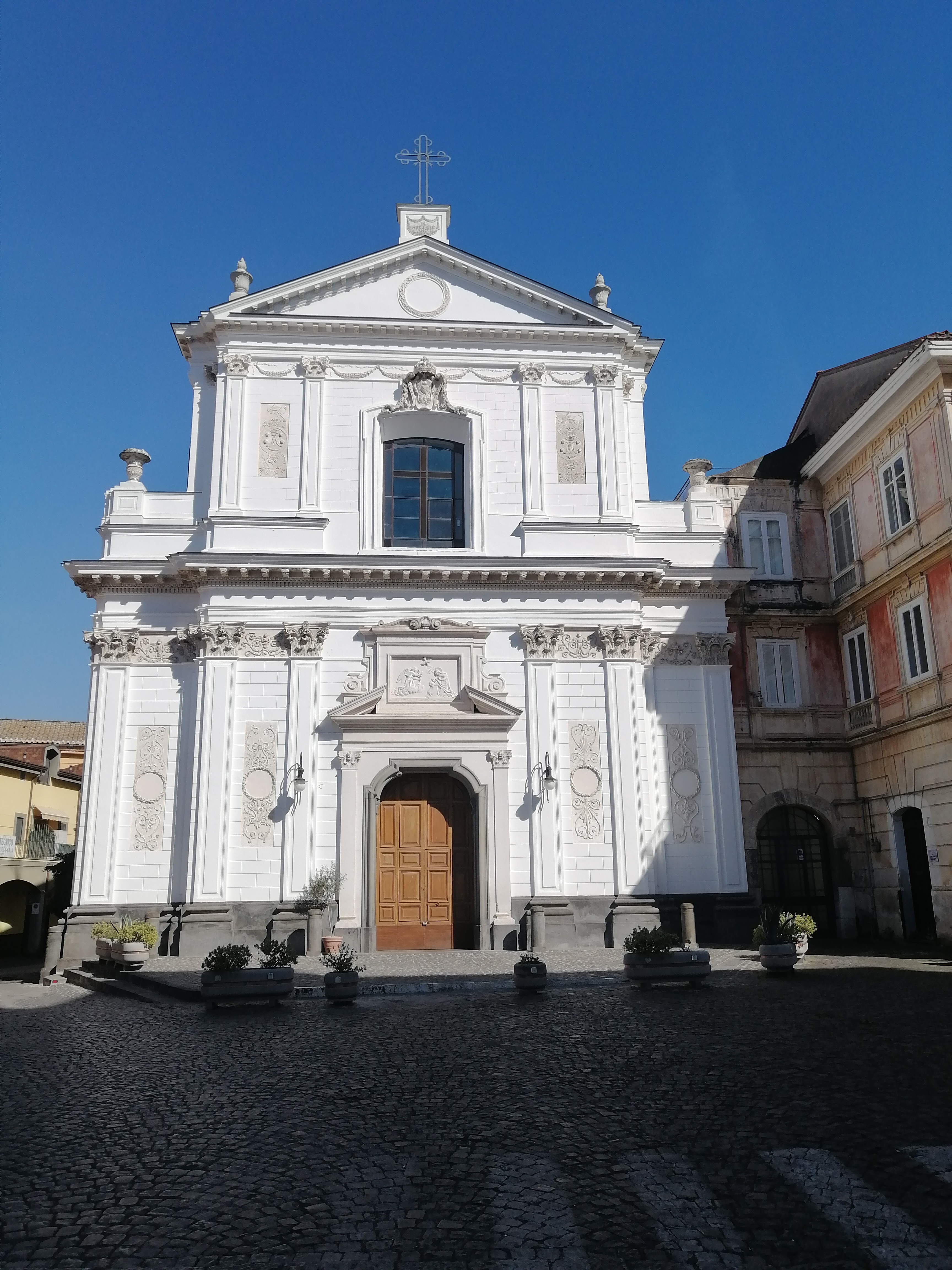 Façade of the church of the Santissima Annunziata and of the former Dominican convent of Angri (Sa).